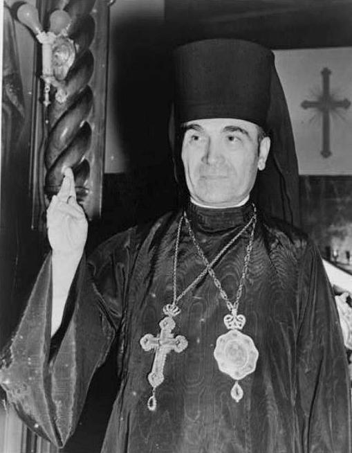 Photo of Bishop Fan Noli in 1939 from the Library of Congress.